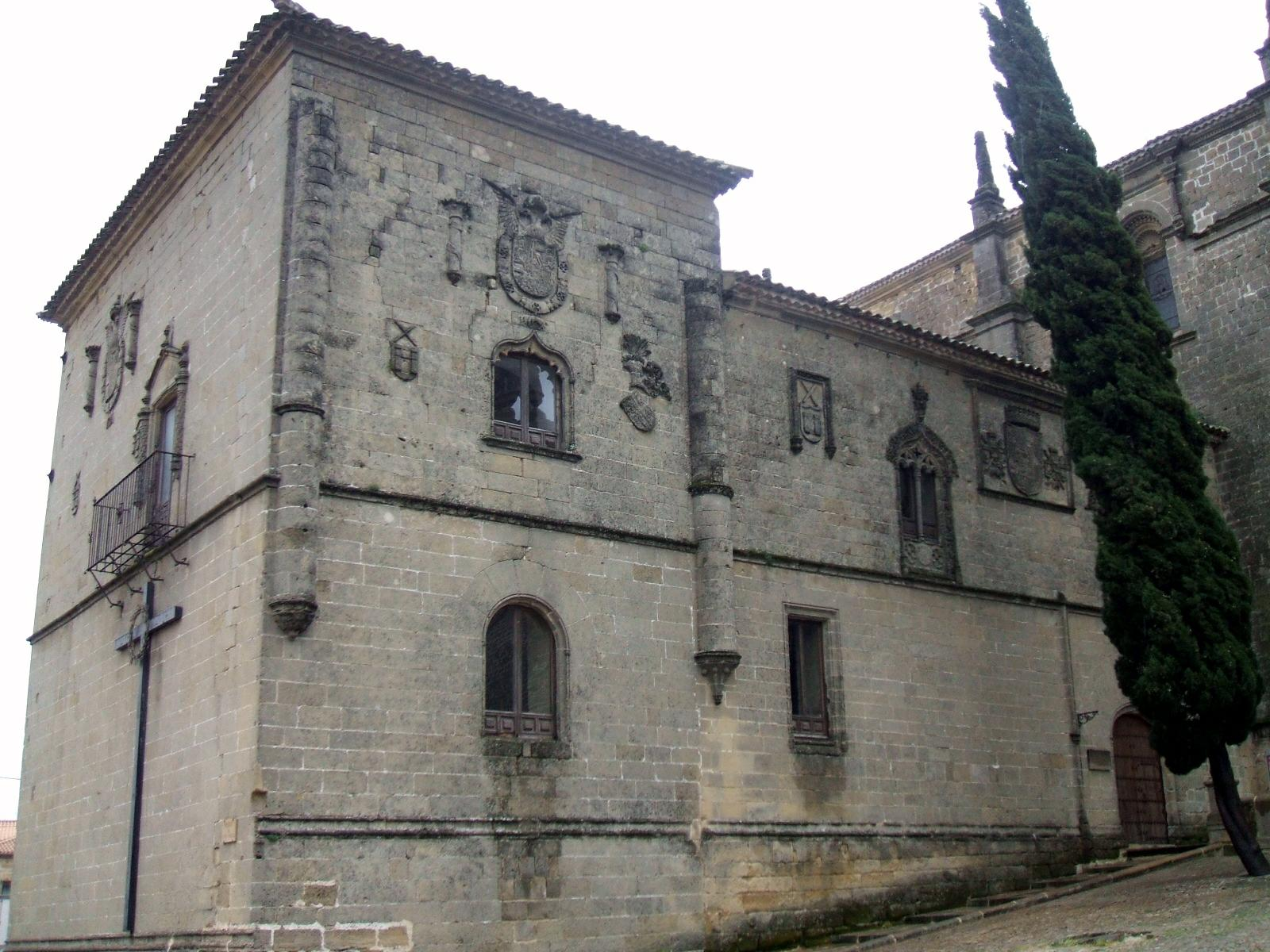 Catedral de Baeza (Jaén, Andalucía, España)